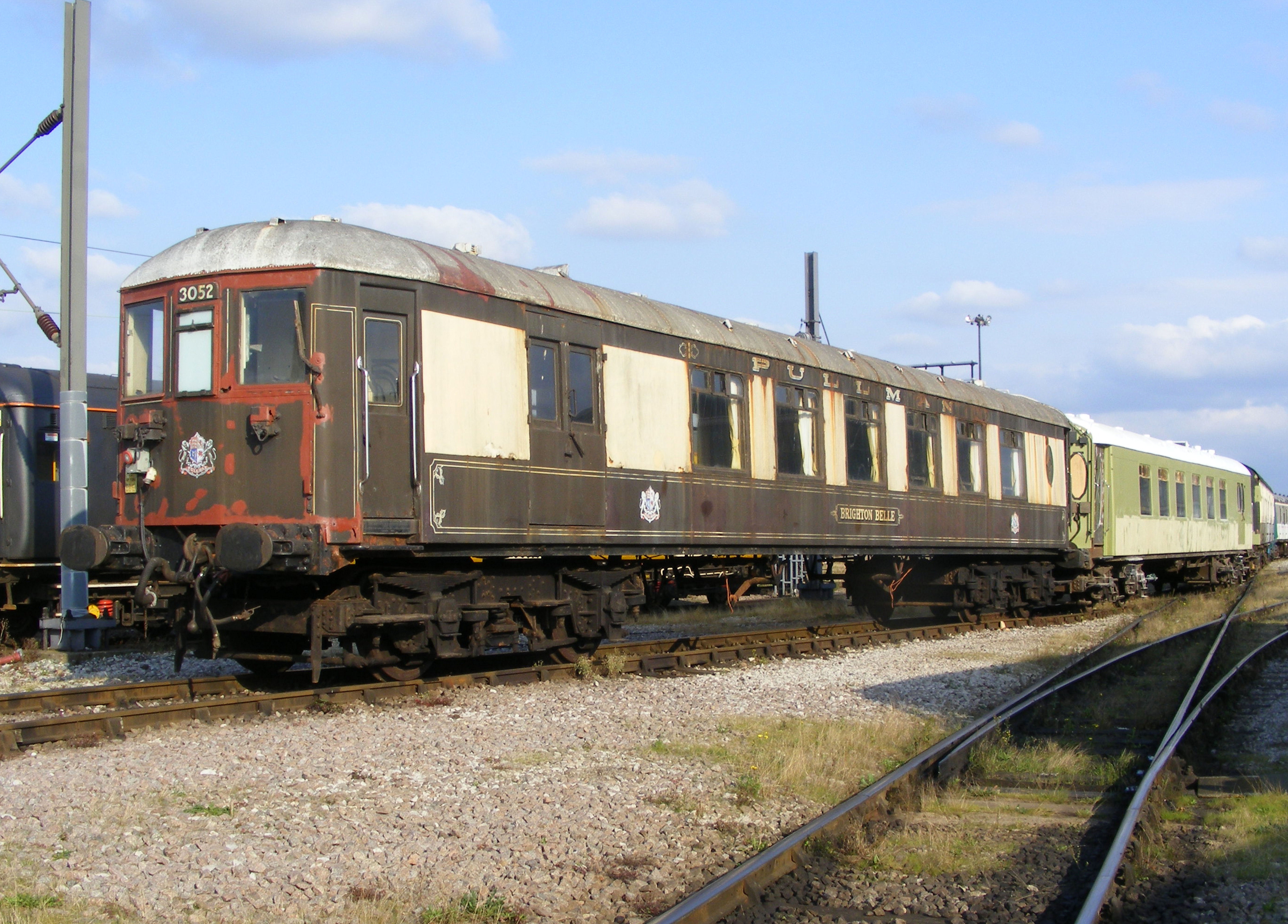 Driving Cars 88 and 91 are coupled together for the first time ever after the arrival of the latter car for restoration at specialists Rampart of Derby.